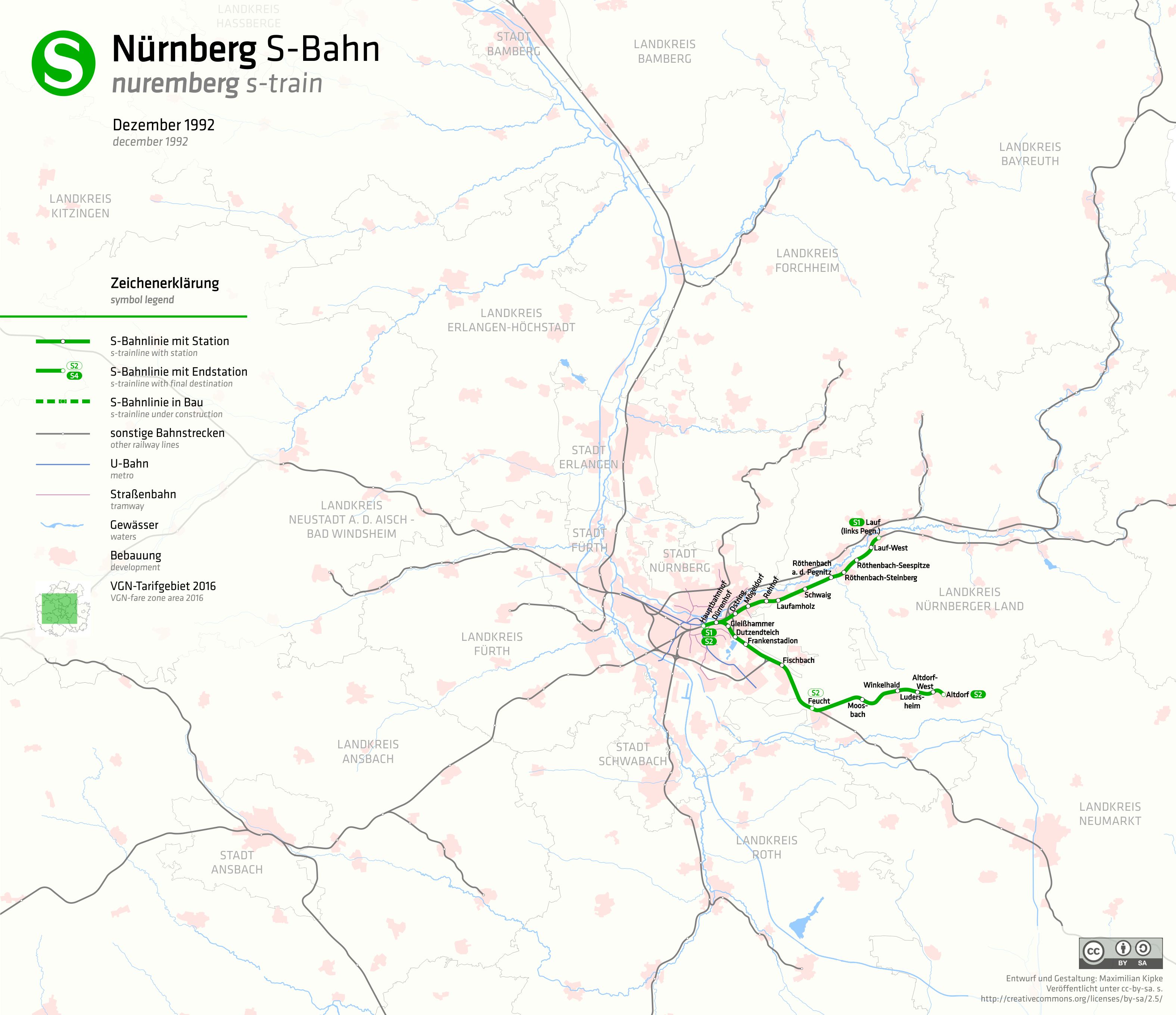 network of s-bahn nuremberg in 1992